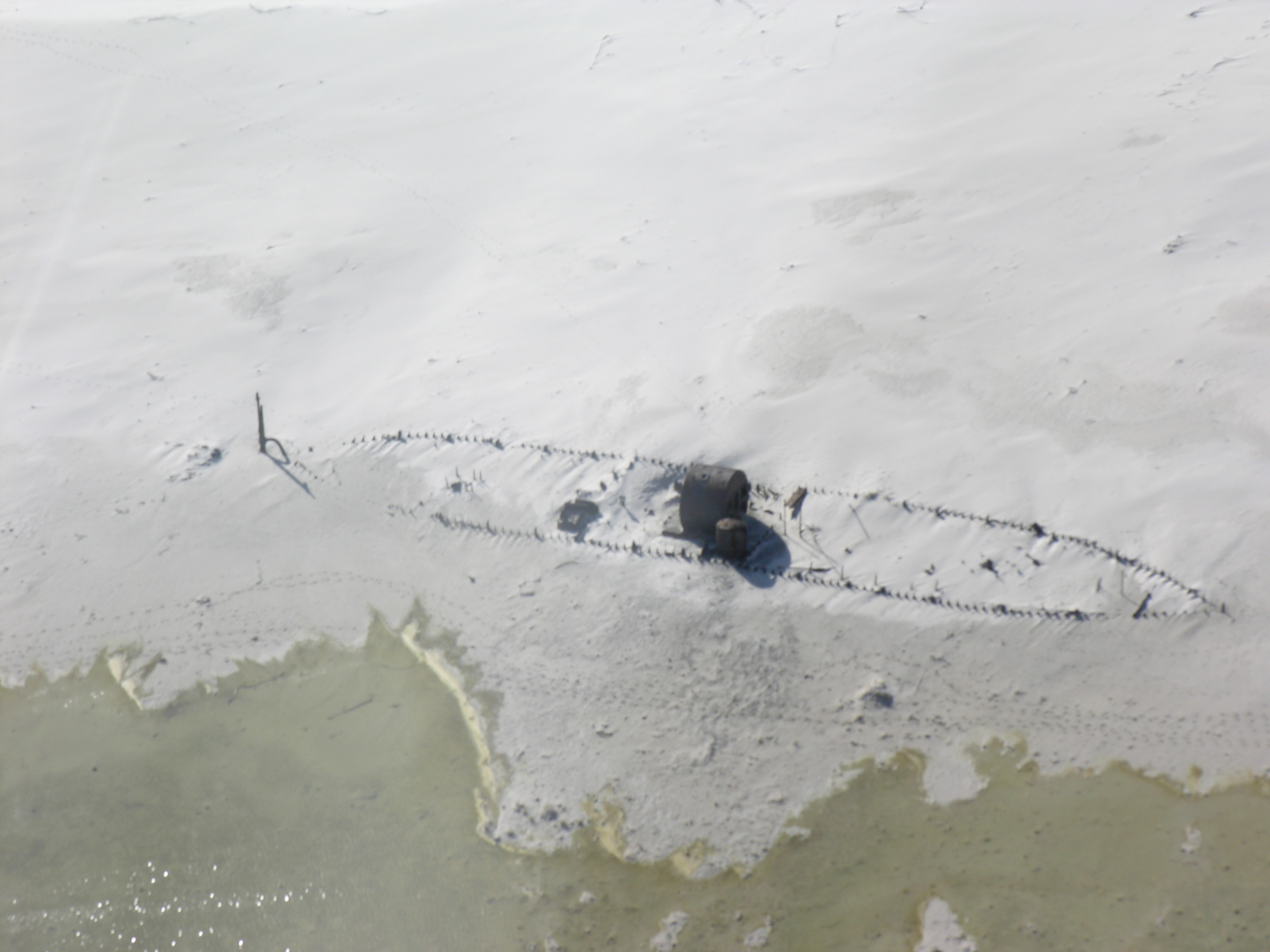 South Africa, Shipwreck on Noordhoek Beach. For exact location see geocode.